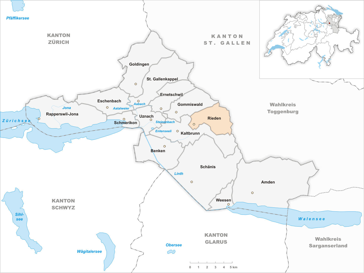 Municipality Rieden